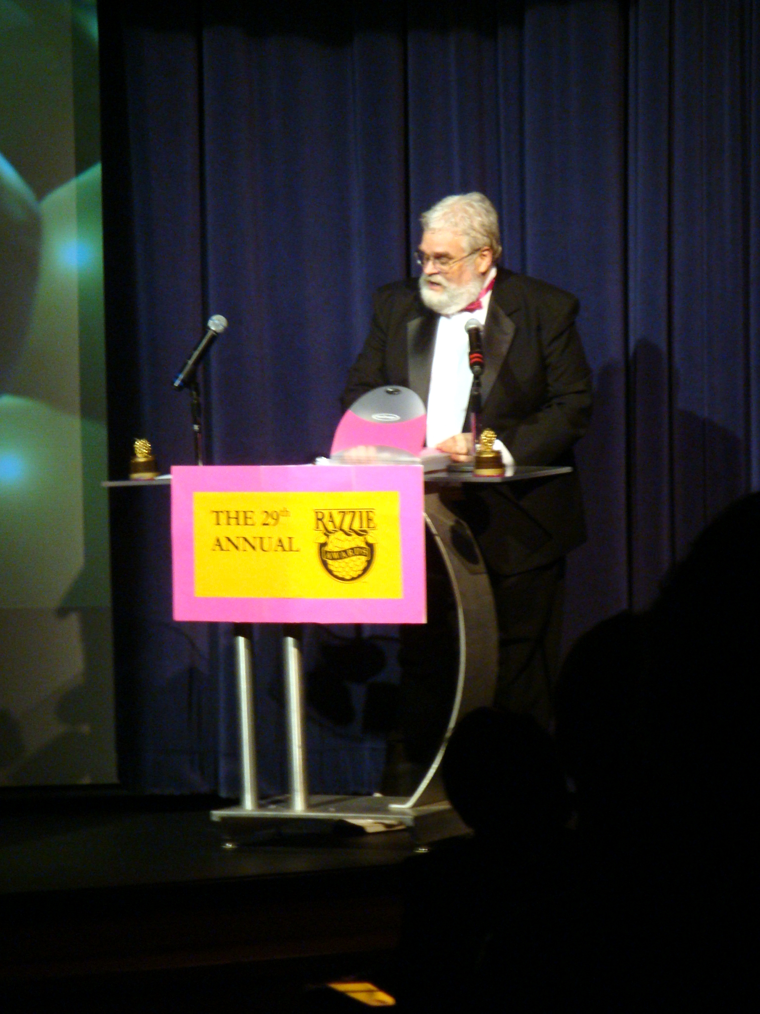 John Wilson presenting at the 29th Razzie Awards ceremony